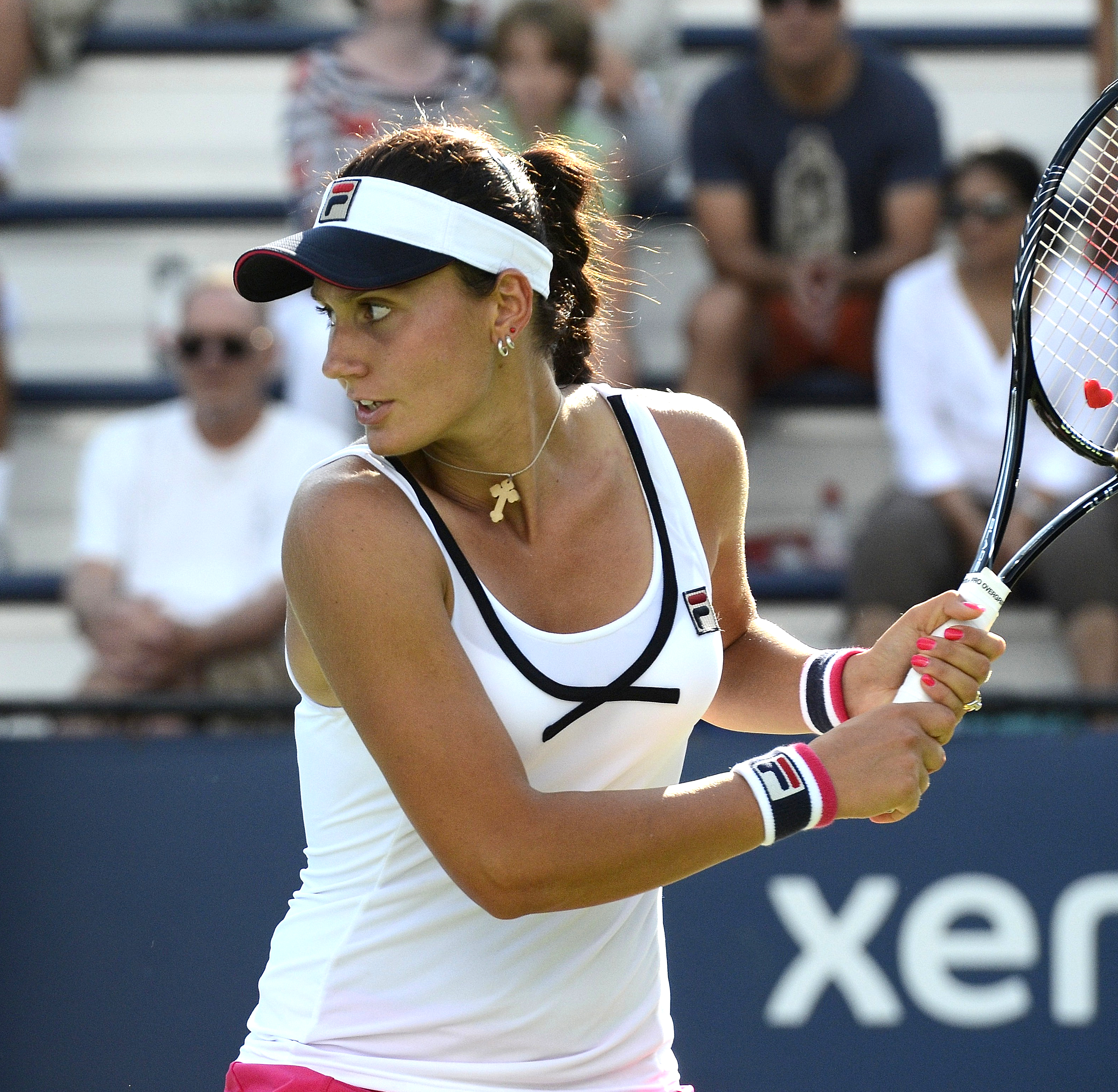 August 19, 2014 Queens, NY Jovana Jaksic (SRB) def. Ana Vrljic (CRO)